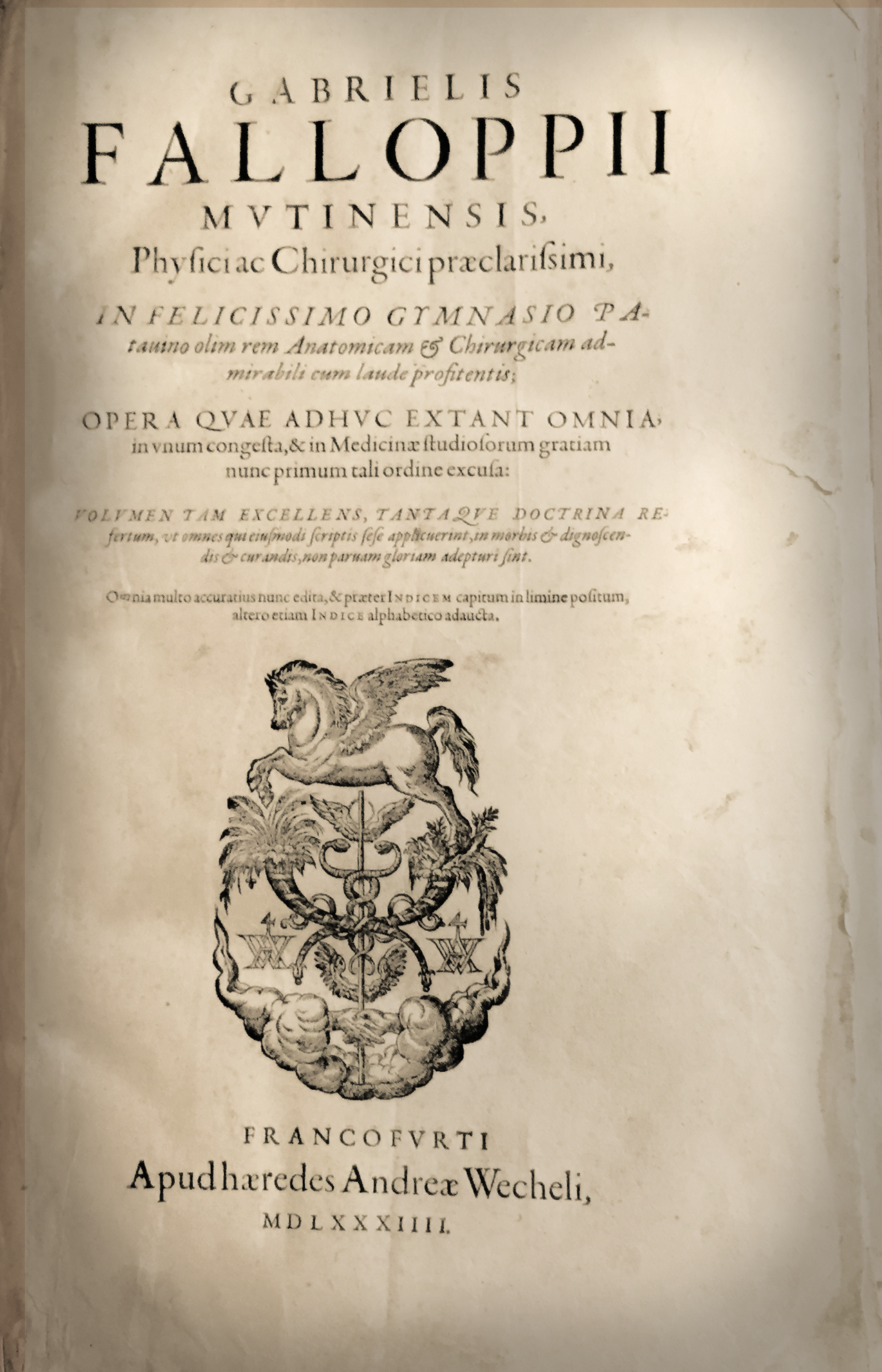 First edition of Fallopii Opera.